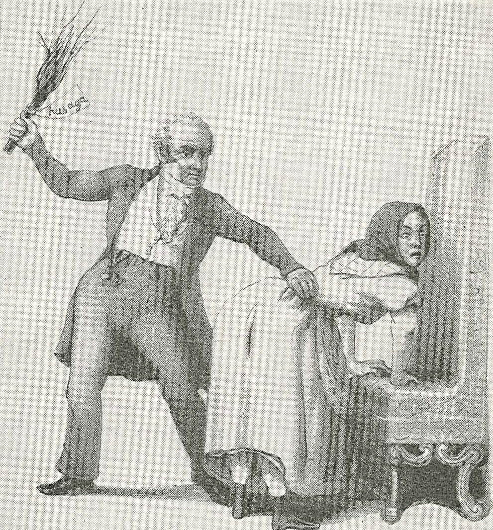 Artist Fritz von Dardel's depiction of the so called "husaga" (the right of the master of the household to corporally punish his servants) still permitted in Sweden during the 19th century.